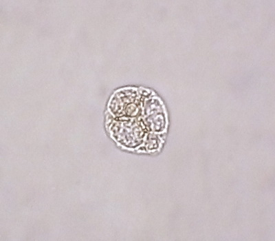 North-West Black Sea, surface water